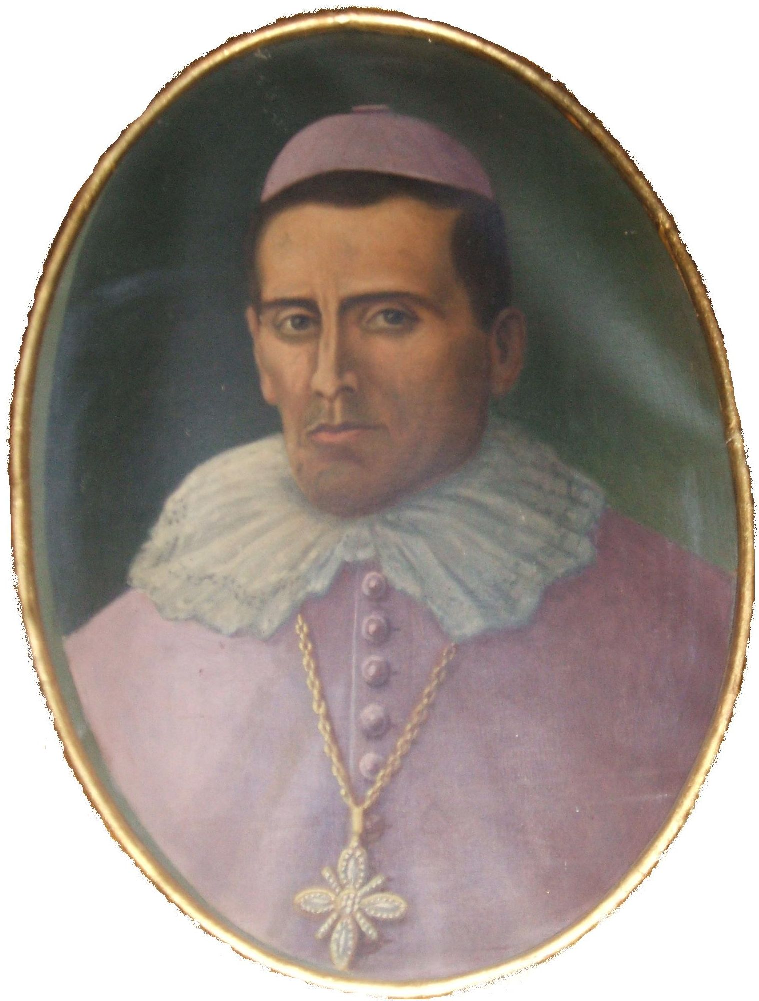 Pedro Ruiz, former Bishop of Chachapoyas (Peru)